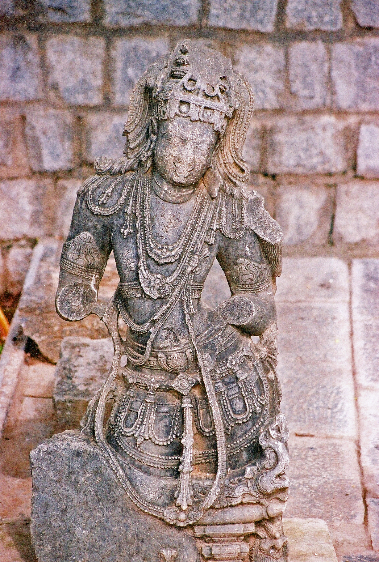 The 12th century Siddhesvara Temple in Haveri city, Haveri district, Karnataka state, India